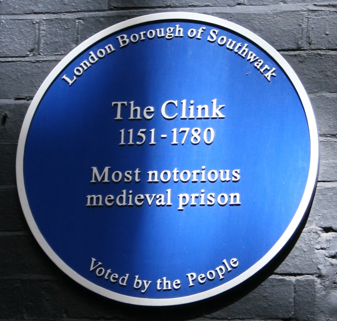 The Blue plaque on the former site of the prison in London that was known as The Clink.